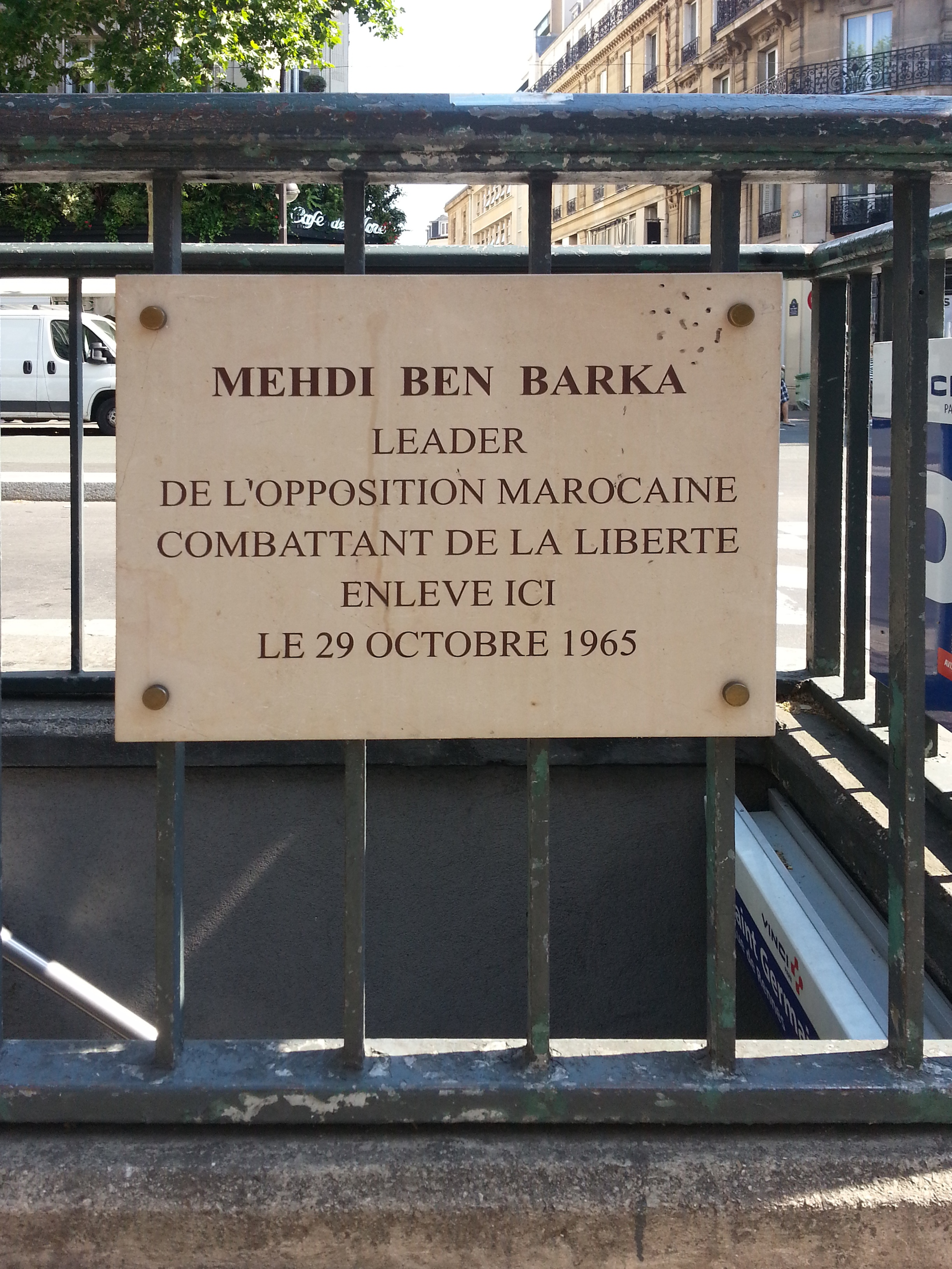 Commemorative plaque on the place where the Moroccan politician Mehdi Ben Barka where kidnapped in october 1965 in front of the Brasserie Lipp, in boulevard Saint-Germain in Paris .